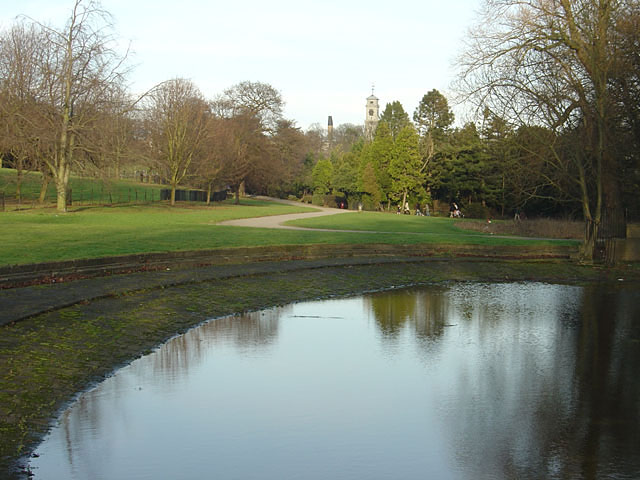 The Paddling Pool, Highfields Park Looking north-east with the tower of the Trent Building (the original building on this site of the then University College). In the foreground the old Paddling Pool, which has been out of use for many years, although water collects after heavy rainfall.